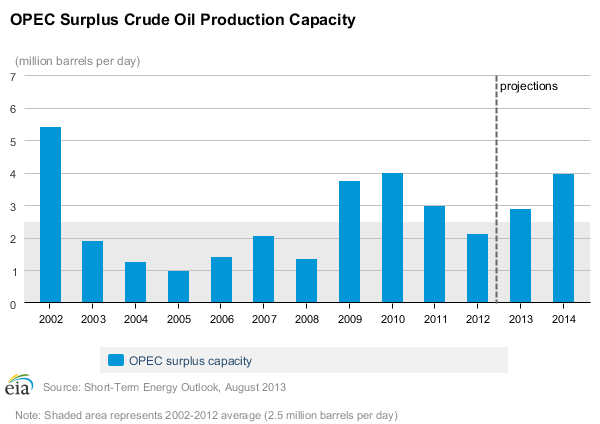 OPEC surplus crude oil production capacity (US EIA)